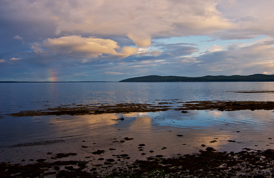 View of the Penobscot Bay on mid-coast Maine as seen at sunset from its shore just east of Waldo County's shiretown of Belfast and near the Searsport town line looking south toward the town of Northport. (Image made on June 26, 2012.)